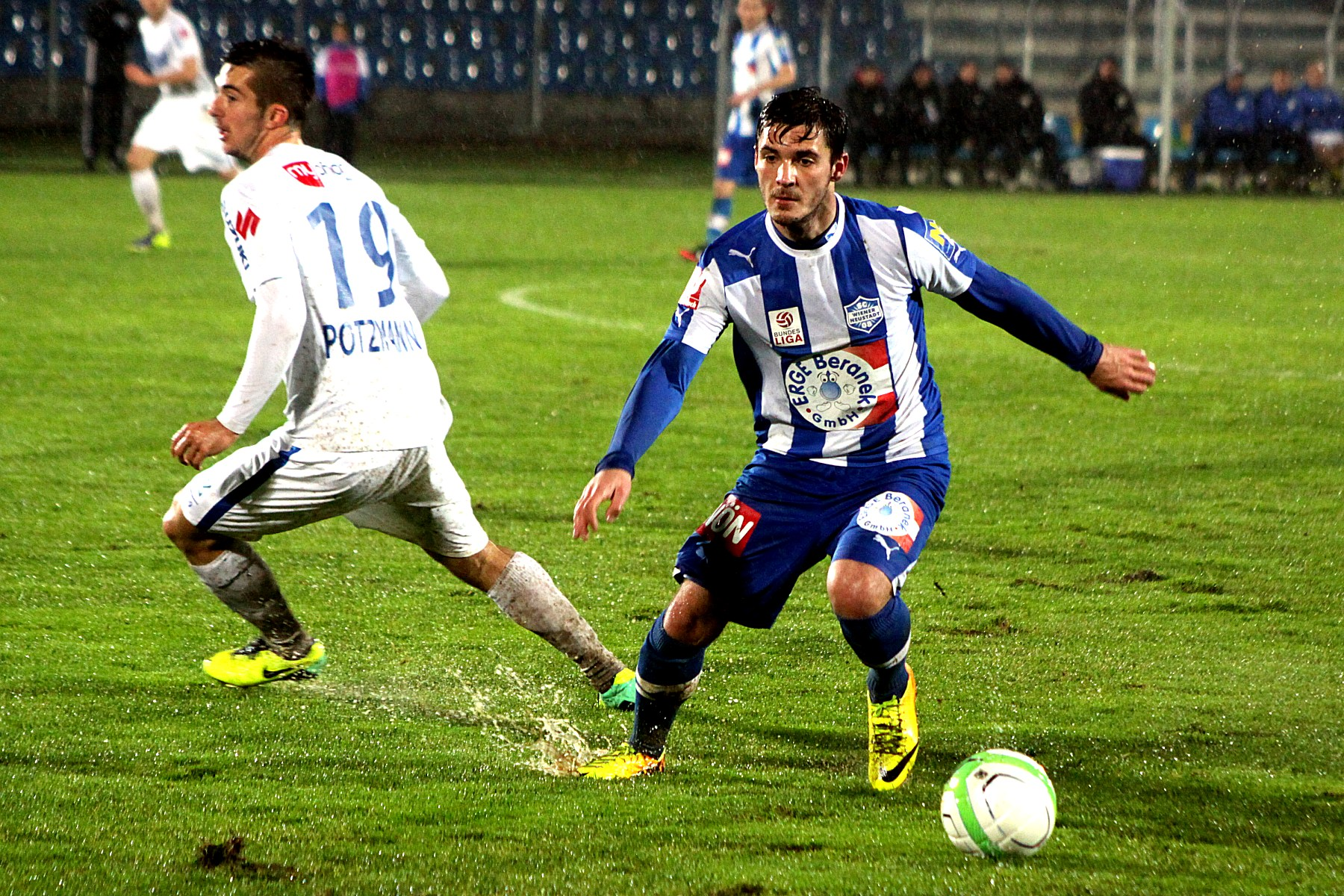 Austrian Football Bundesliga: SC Wiener Neustadt vs. SV Grödig (0:2) at 2013-11-23 in the Stadion Wiener Neustadt. – The photo shows Christoph Martschinko (SC Wiener Neustadt, blue shirt) und Marvin Potzmann (SV Grödig, white shirt).